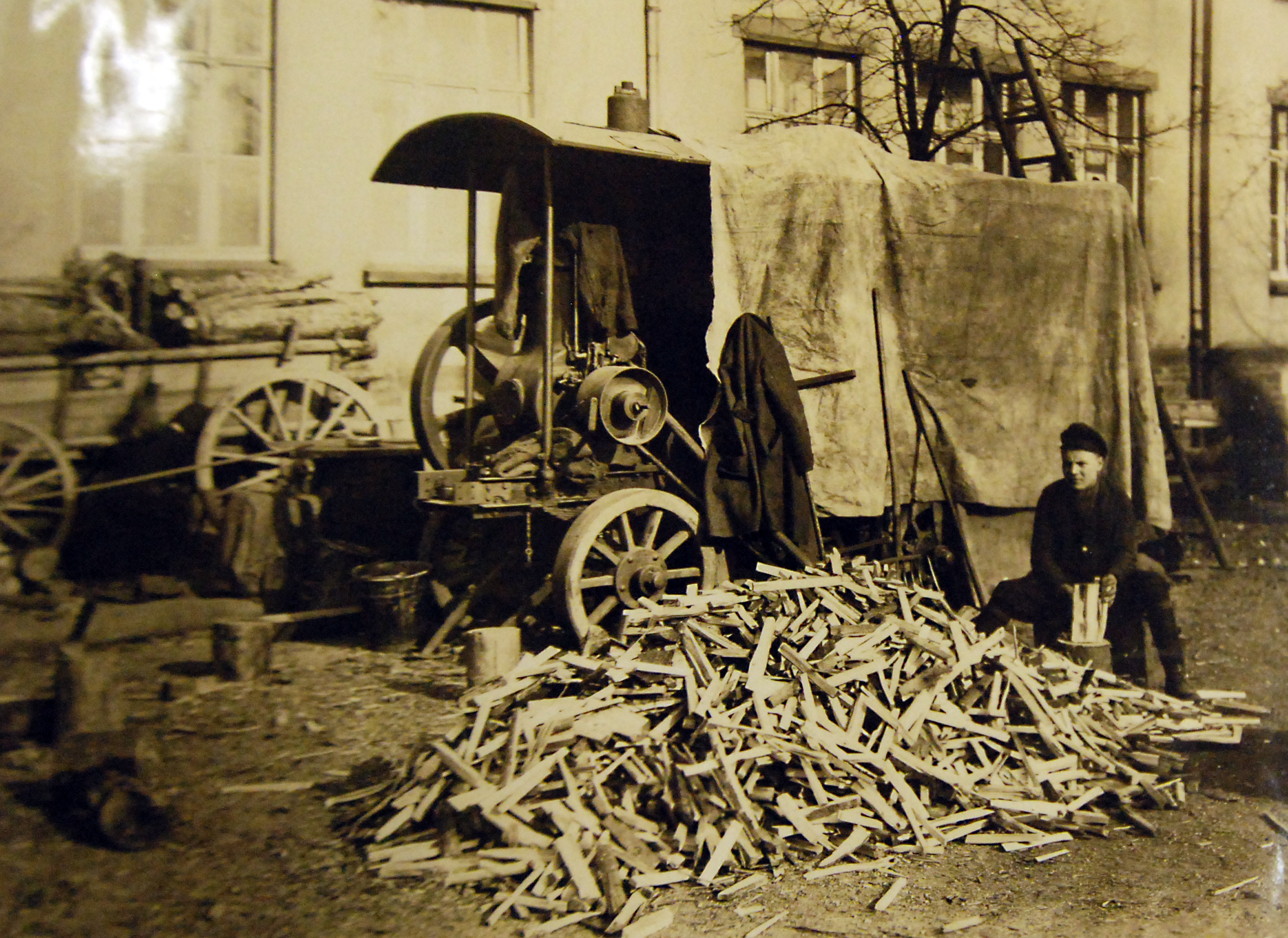 Lot-8302-4: A German boy splitting kindling wood, for American use. In the background is shown a power saw, used to cut the wood to convenient length for issue, Wood Yard, Coblenz, Germany, February 13, 1919. U.S. Army Photograph. Courtesy of the Library of Congress. (2017/01/13).